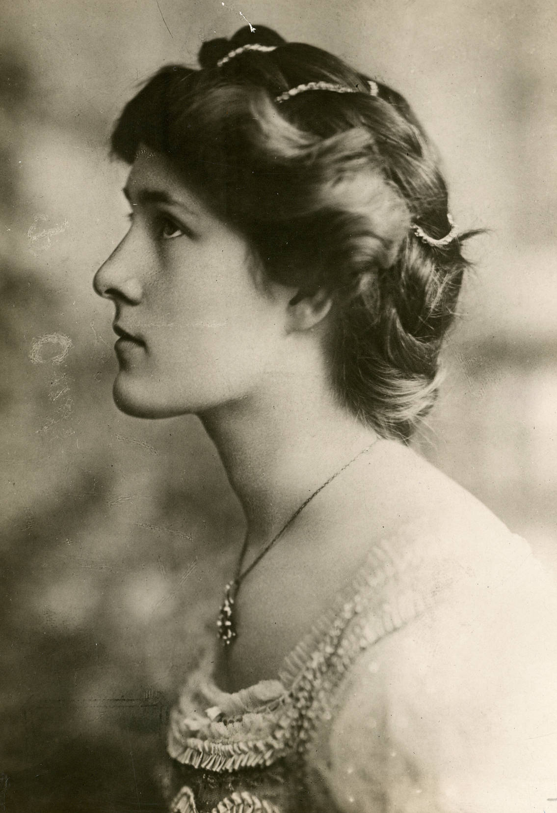 Stage comedian Zena Dare. Subjects: comedians